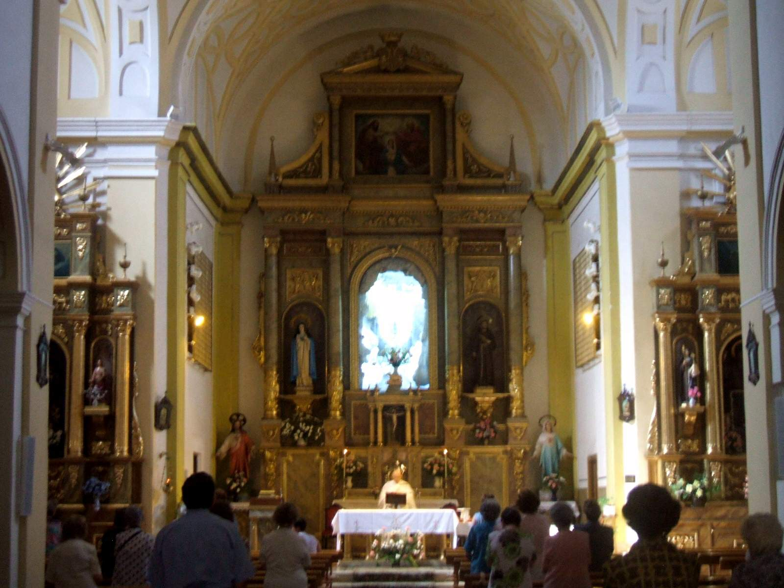 Iglesia del Carmen (ex Conveno carmelita de los Santos Reyes), en Guadalajara, España. El mobiliario interior es, en esencia, de pan y melón.